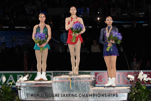 The ladies podium at the 2009 World Championships. From left: Joannie Rochette (2nd), Kim Yu-Na (1st), Miki Ando (3rd).